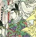 Empress Go-Sakuramachi cropped from 1878 engraving by Toyohara Chikanobu (1838 - 1912). The right panel of this tryptic presents an image of Empress Go-Sakuramachi (represented as a male, with goatee).